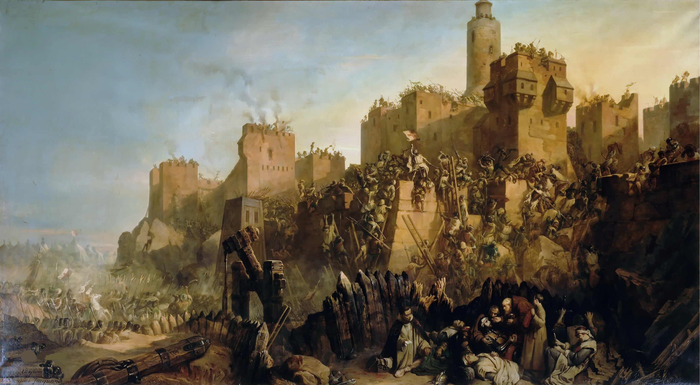 A depiction of a battle of Jerusalem that never was. The painting was commissioned in 1846 following French rumors that depicted Jacques Molay as having captured Jerusalem in 1299. In reality, after Jerusalem was lost in 1244, it wasn't under Christian control till 1917, date at which the British Empire took it from the Ottomans.